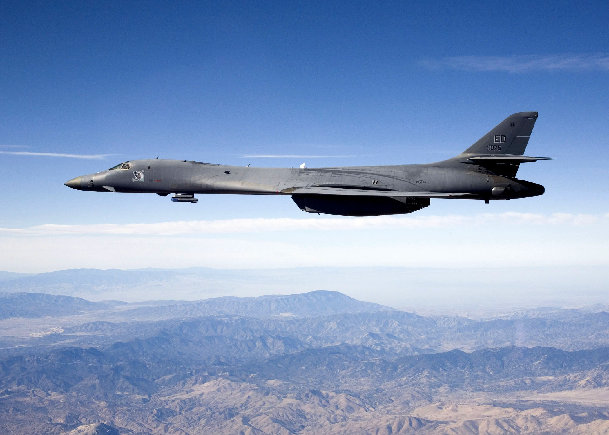 A B-1B Lancer carries the Sniper pod on its belly as it flies during a flight test Feb. 23 from Edwards Air Force Base, Calif. The 419th Flight Test Squadron testers recently concluded the initial development of the Sniper pod installed on a B-1B. The Sniper pod is an advanced targeting pod with a multi-sensor system that increases the aircraft's self-targeting capability.